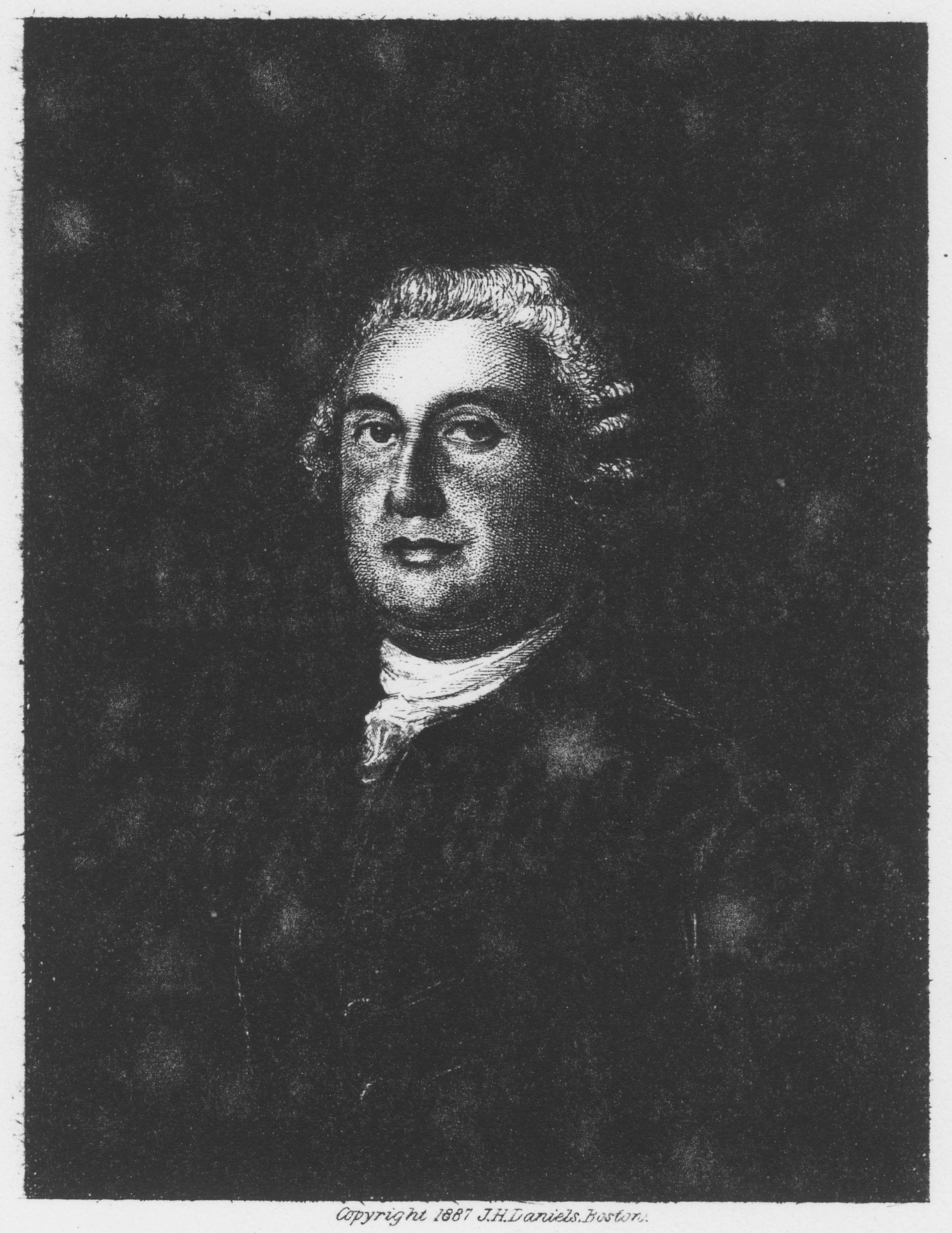 Scope and content: Photograph of Francis Bernard, Governor of Massachusetts, 1760 to 1769.